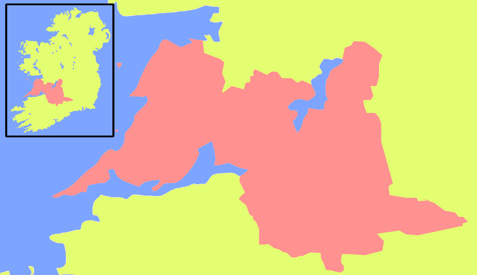 Rough map of the Kingdom of Thomond. Most sources describe it as in the area of the modern day Diocese of Killaloe by he 11th century, this is the boundaries which have been used.